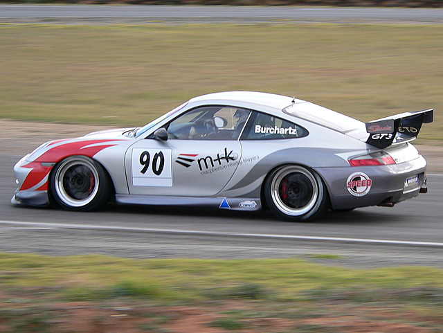 2006 Australian GT Championship season Porsche GT3 race car number 90 driven by Sven Burchartz during Round 5 at Mallala Motor Sport Park